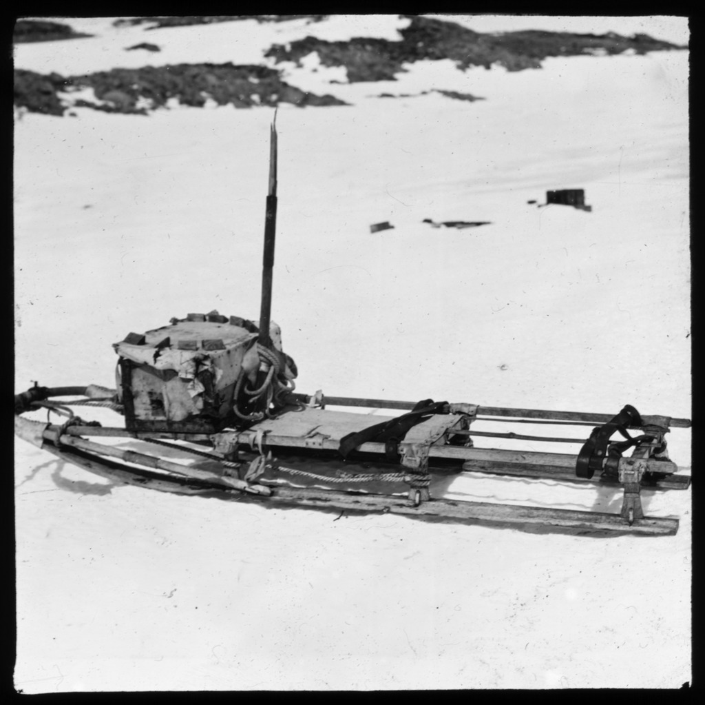 The half-sledge used in the last stage of Mawson's journey [Australasian Antarctic Expedition, 1911-1914].